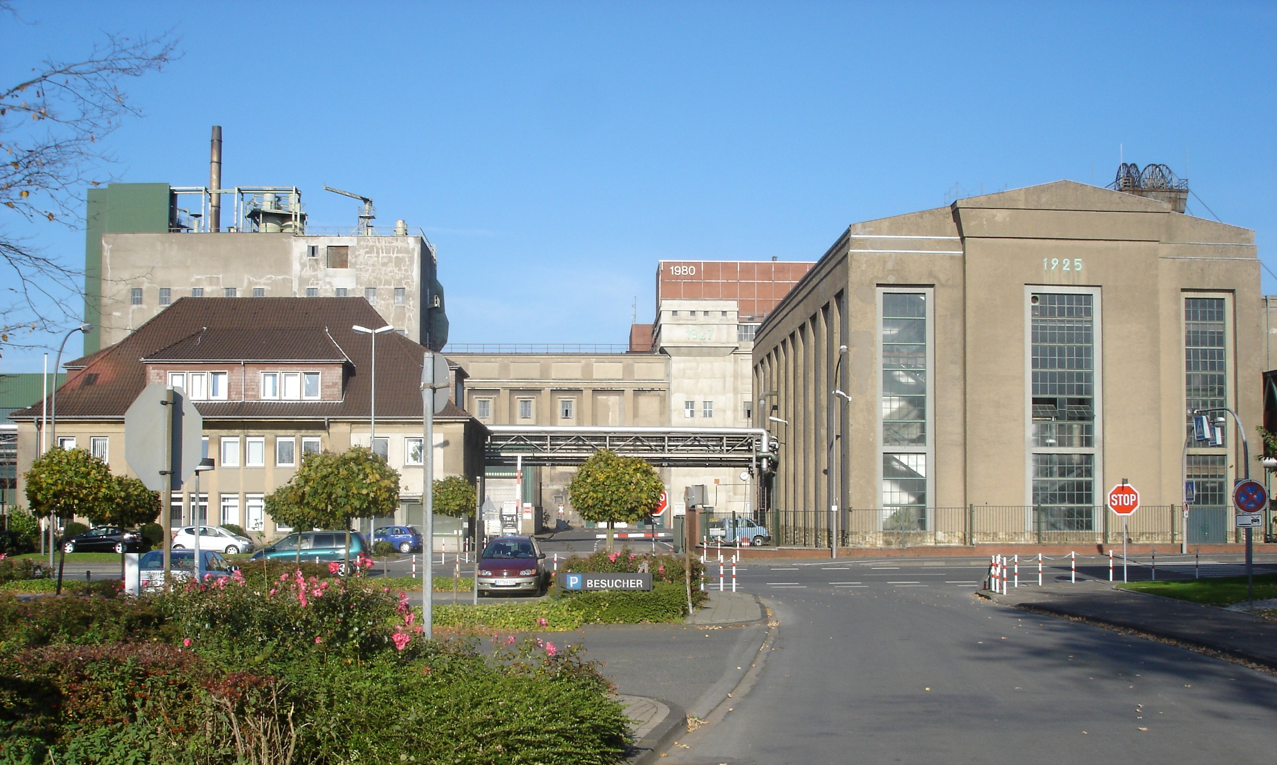 Main entrance of the DSK coal mine in the city of Ibbenbüren